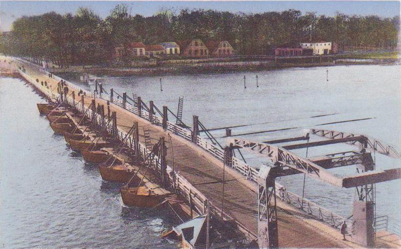 Pontonbridge river IJssel at Deventer, Netherlands